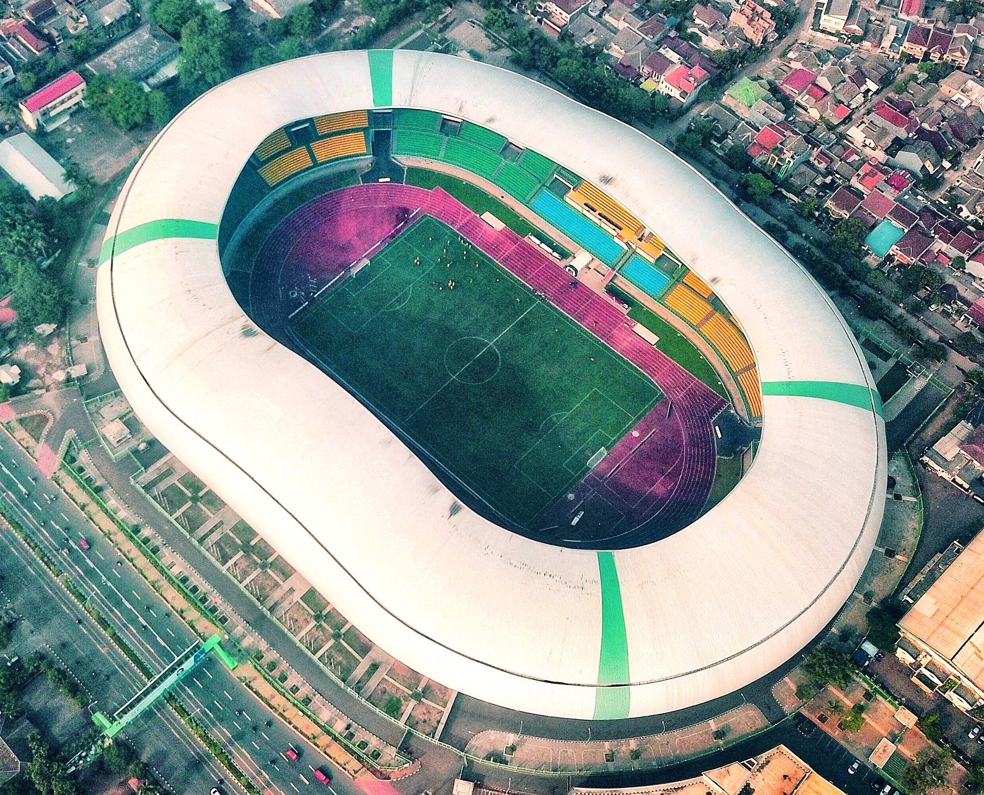 The Patriot Chandrabhaga Stadium is a multi-purpose stadium located in Bekasi, West Java, Indonesia. It is currently used mostly for football matches. The stadium holds 30,000 people.